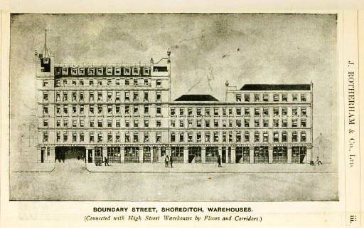 1904 catalogue image of the warehouse